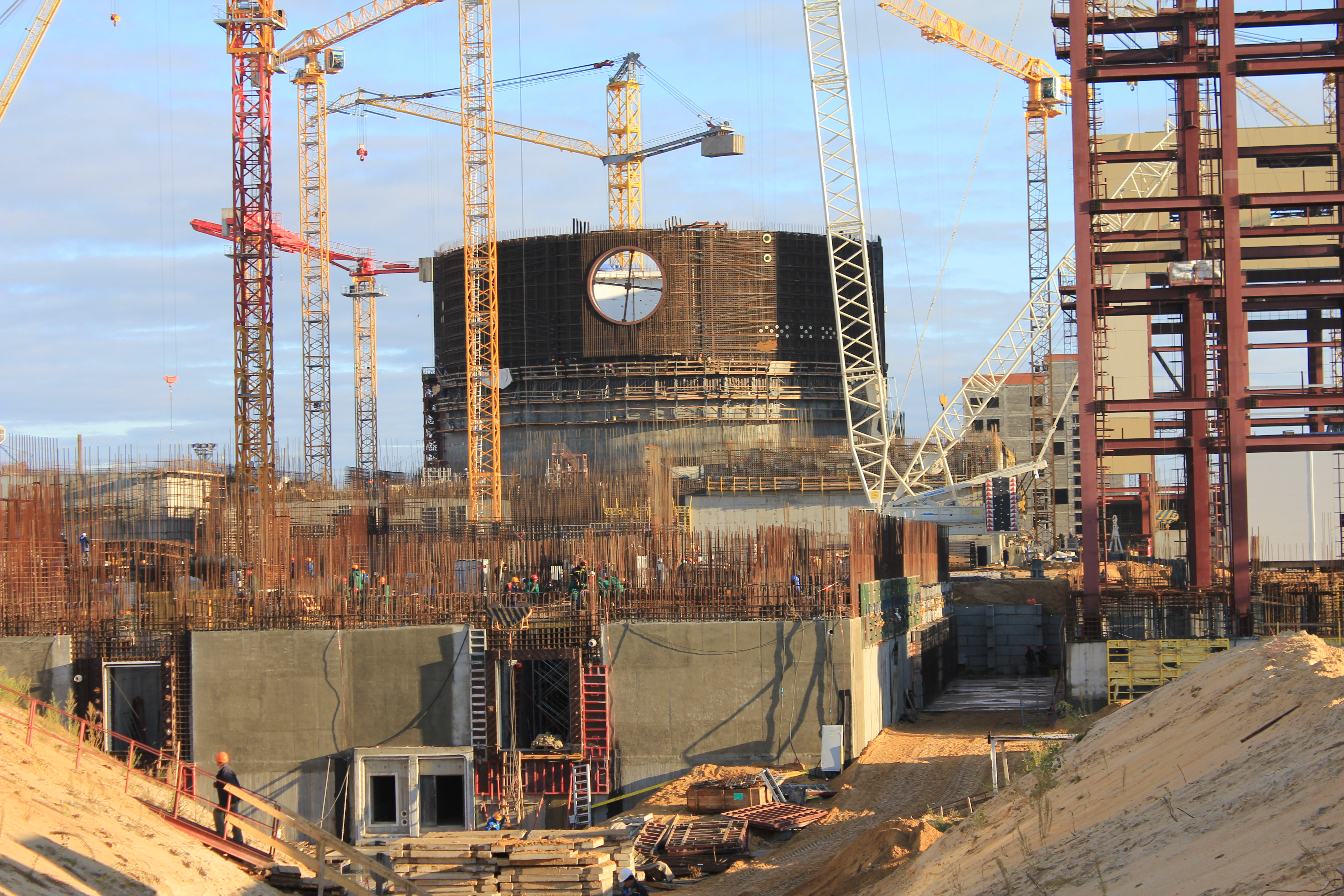 Novovoronezh NPP II Unit two against the background Unit one